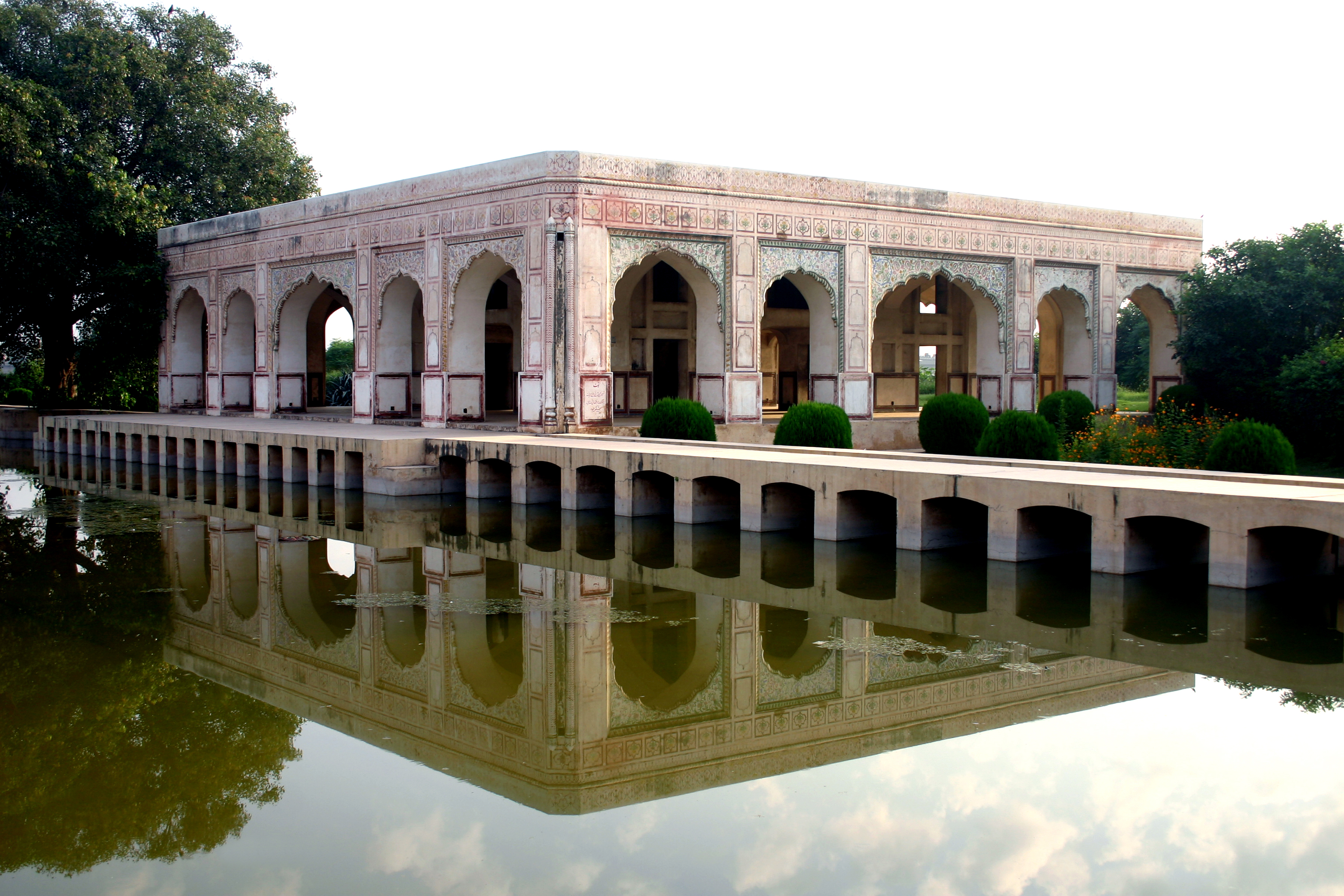 Baradari of Kamran Mirza This is a photo of a monument in Pakistan identified as the PB-69